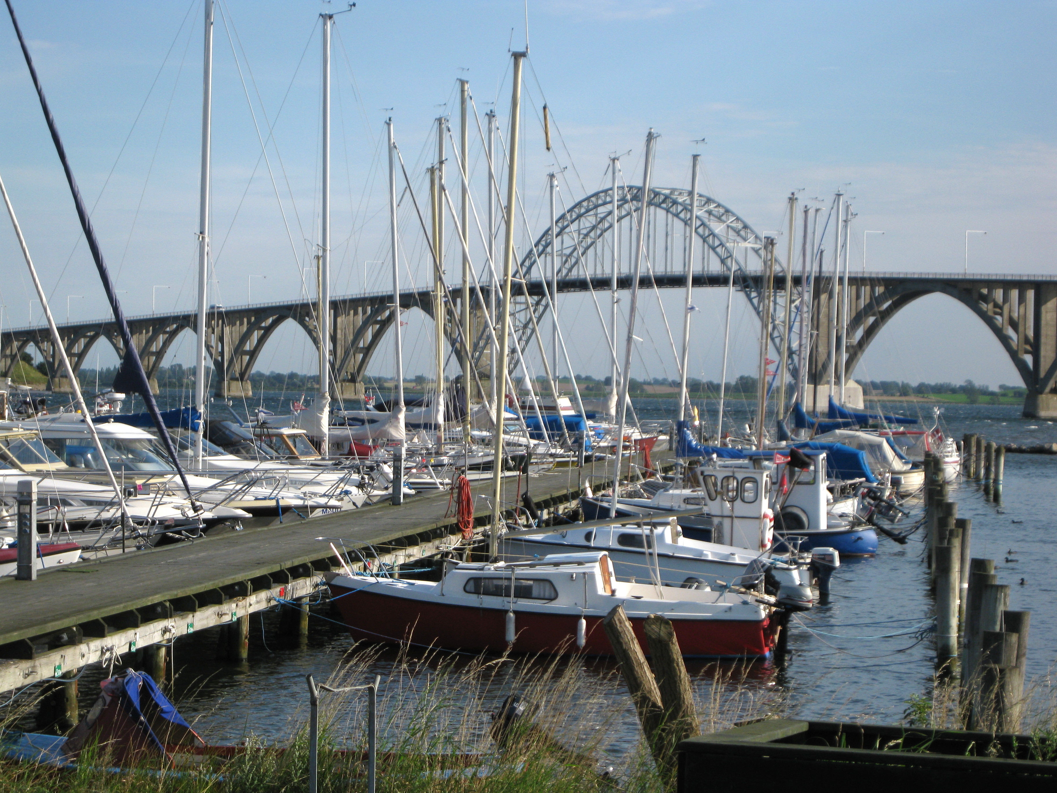 The bridge "Dronning Alexandrines Bro" nearby the small town "Kalvehave". The town is located on South Zealand in east Denmark.